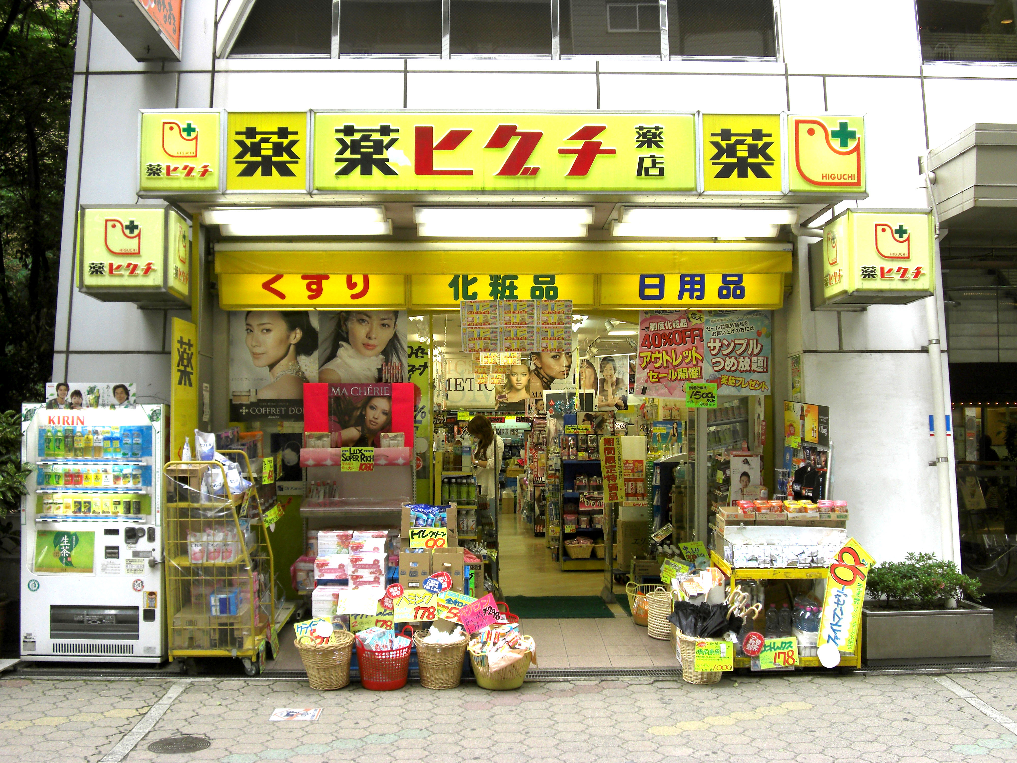 Kusuri Higuchi Esaka,Toyotsucho Suita-City Osaka Japan.